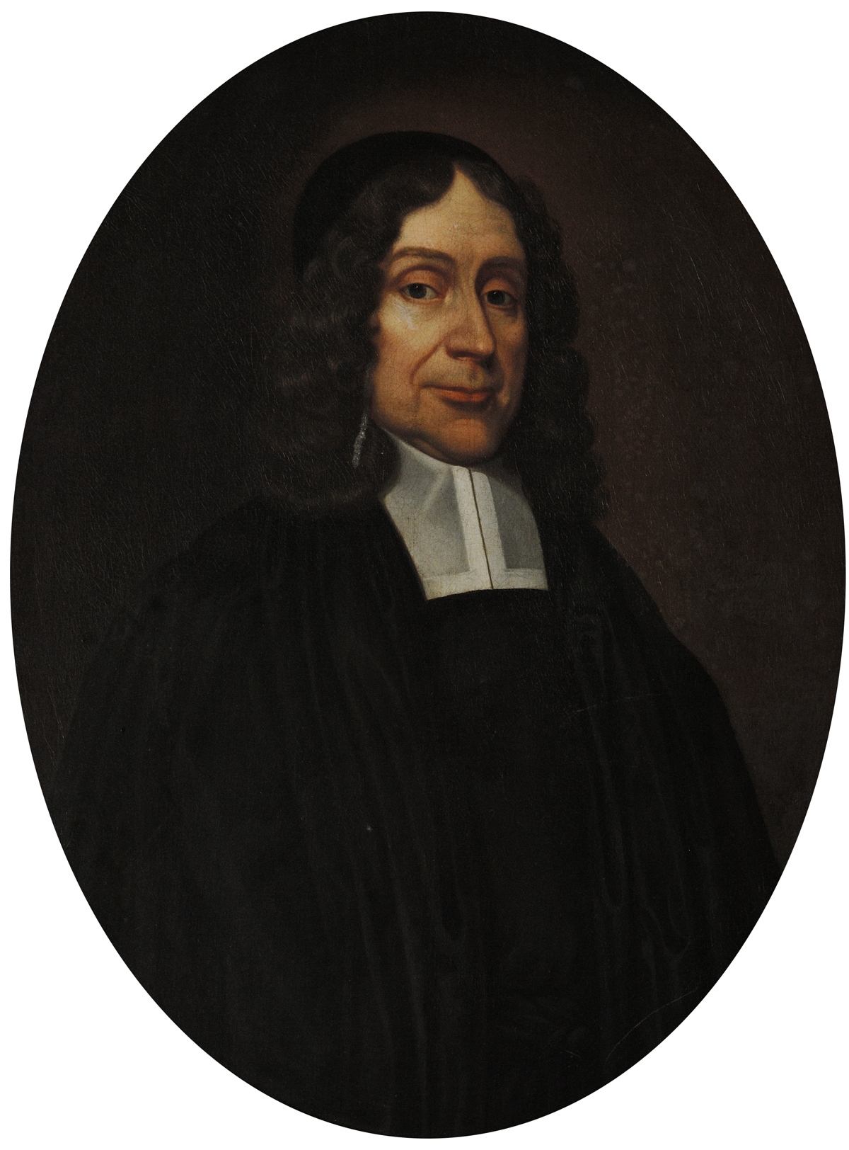 Portrait of Ralph Bathurst